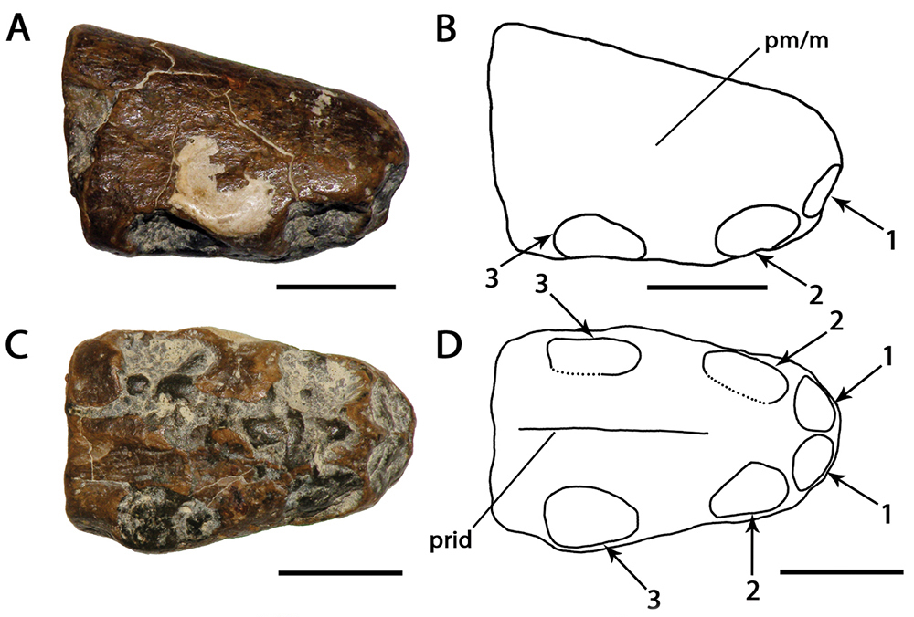 A–D Ornithocheirus brachyrhinus, holotype CAMSM B54443 (Albian, Cambridge Greensand), anterior part of the rostrum. A right lateral view B respective line drawing C ventral view D respective line drawing. Abbreviations: m – maxillae, pm – premaxillae, prid – palatal ridge. Arrows and numbers indicate alveoli or teeth and their respective position. Scale bar = 10 mm.